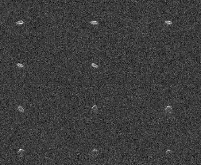 Asteroid 4183 Cuno Credit: Scott Hudson Scott's work on this was funded by NASA. As such I believe this to be a work of a federal employee, and as such in the public domain. If it can be established that Scott was acting as a private individual in creating this image I believe it can be used under fair use provisions in US law. This image is being used on wikipedia educationally, the nature of the image is that copyright can only exist in the layout and colouring, as the asteroid itself cannot be covered by copyright. There is little detraction from the value of the image in our use on wikipedia.